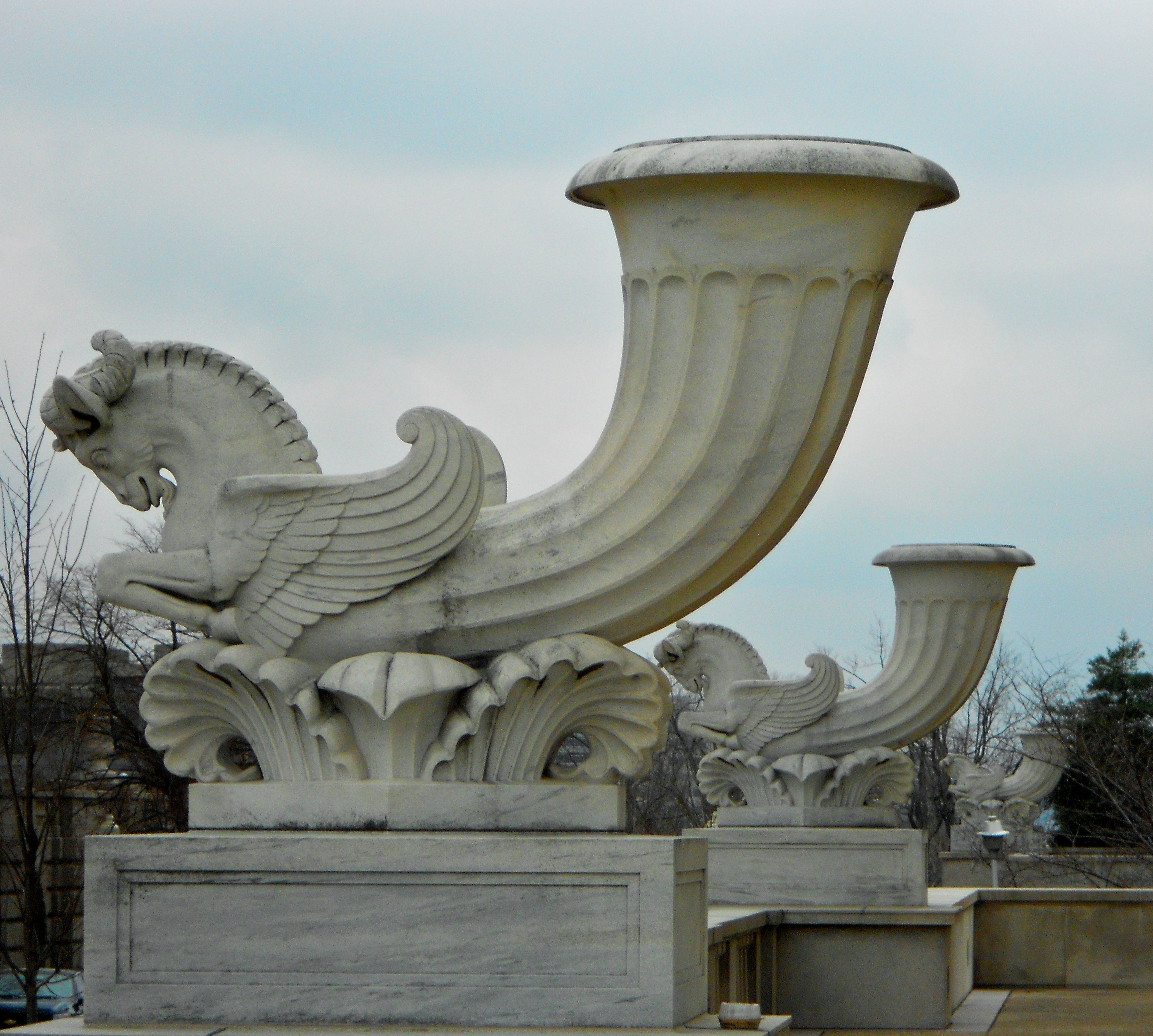 Statues of Horses at the Rayburn Congressional Office Building in Washington, DC. They say that a camel is a horse designed by a committee. This is obviously a horse designed by a Congressional committee, since it has horns, wings, and a cornucopia coming out of its ass.